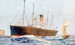 SS Persic